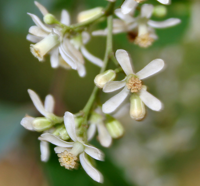 Neem, Margosa, Neeb, Nimtree, Nimba, Vepu, Vempu, Vepa, Bevu, Veppam, Aarya Veppu or Indian-lilac Azadirachta indica in Hyderabad, India.